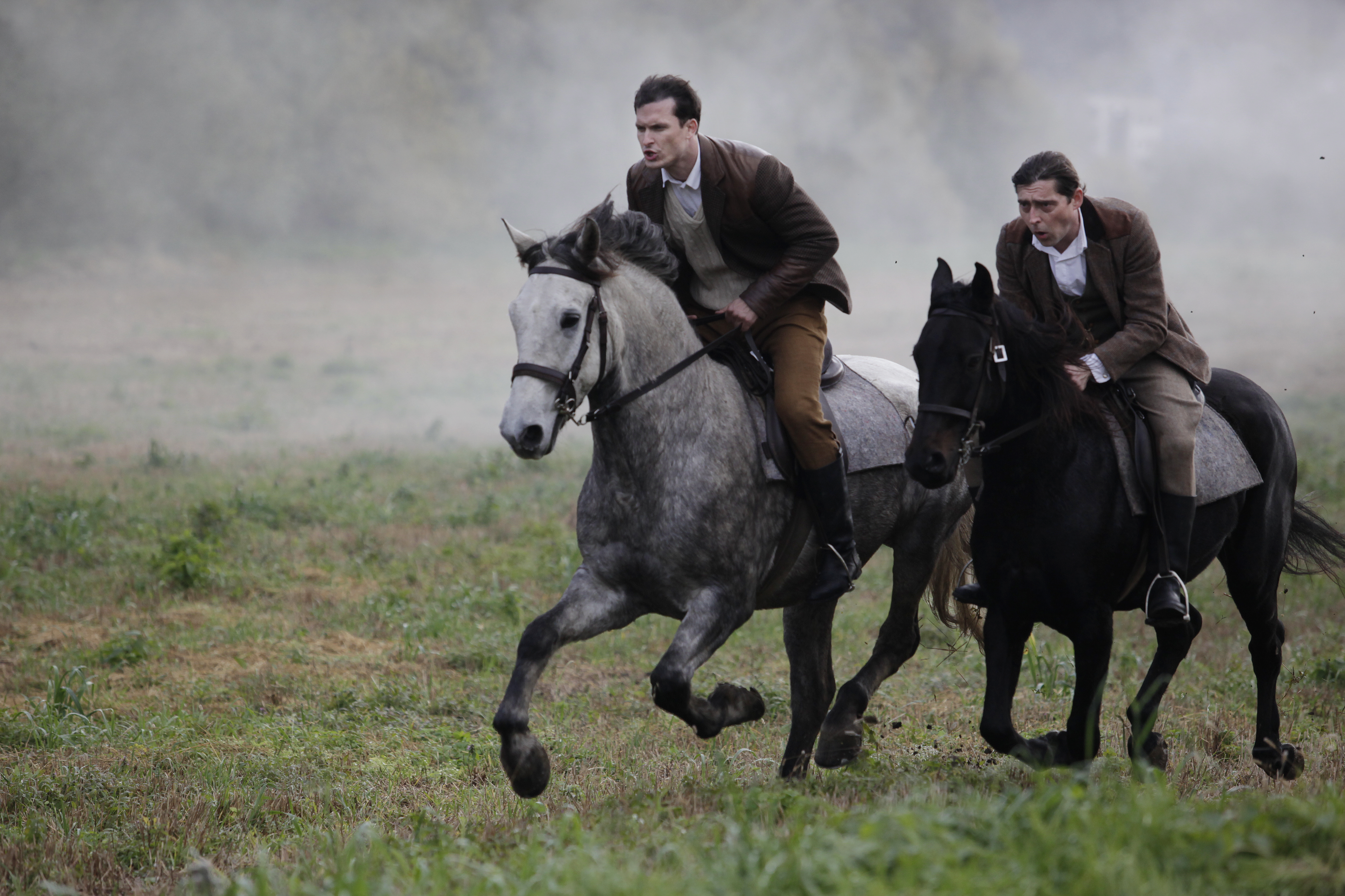 První republika (seriál)